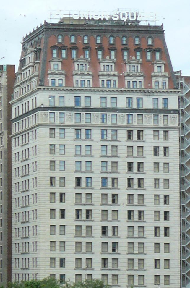 W Union Square, (50 Union Square E.) formerly General Life Insurance Company Building, formerly Germania Life Insurance Company Building.